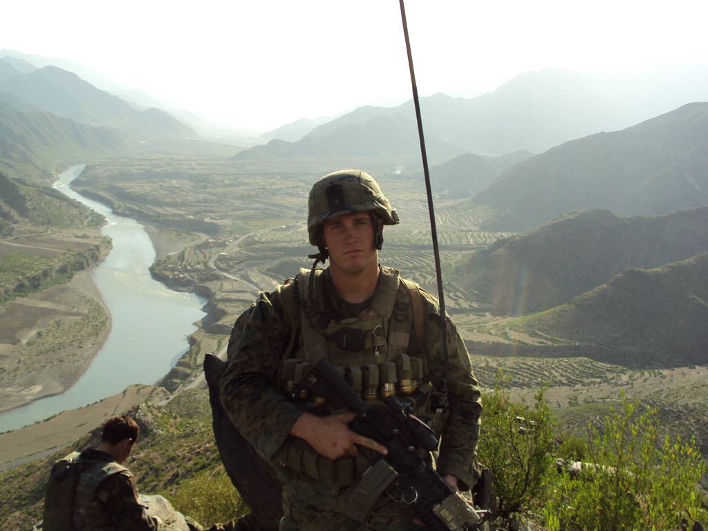 Sgt. (then Cpl.) Dakota Meyer while deployed in support of Operation Enduring Freedom in Ganjgal Village, Kunar province, Afghanistan. Meyer will be receiving the Medal of Honor, the nation's highest award for valor, from President Barack Obama in Washington, Sept. 15, making him the first living Marine recipient since the Vietnam War. Meyer was assigned to Embedded Training Team 2-8 advising the Afghan National Army in the eastern provinces bordering Pakistan. He will be awarded for heroic actions in Ganjgal, Afghanistan, Sept. 8, 2009. Headquarters Marine Corps Location:AF Related Photos